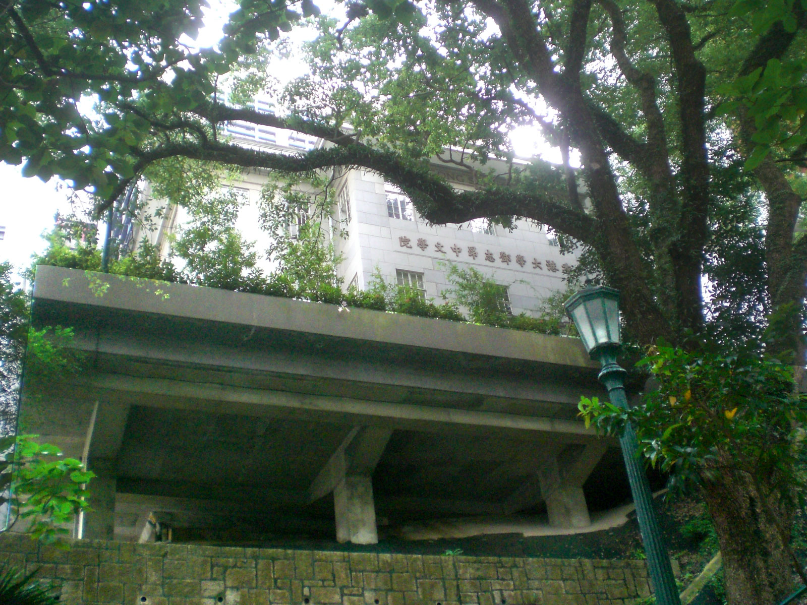 香港大學鄧志昂樓 地基zh:平台